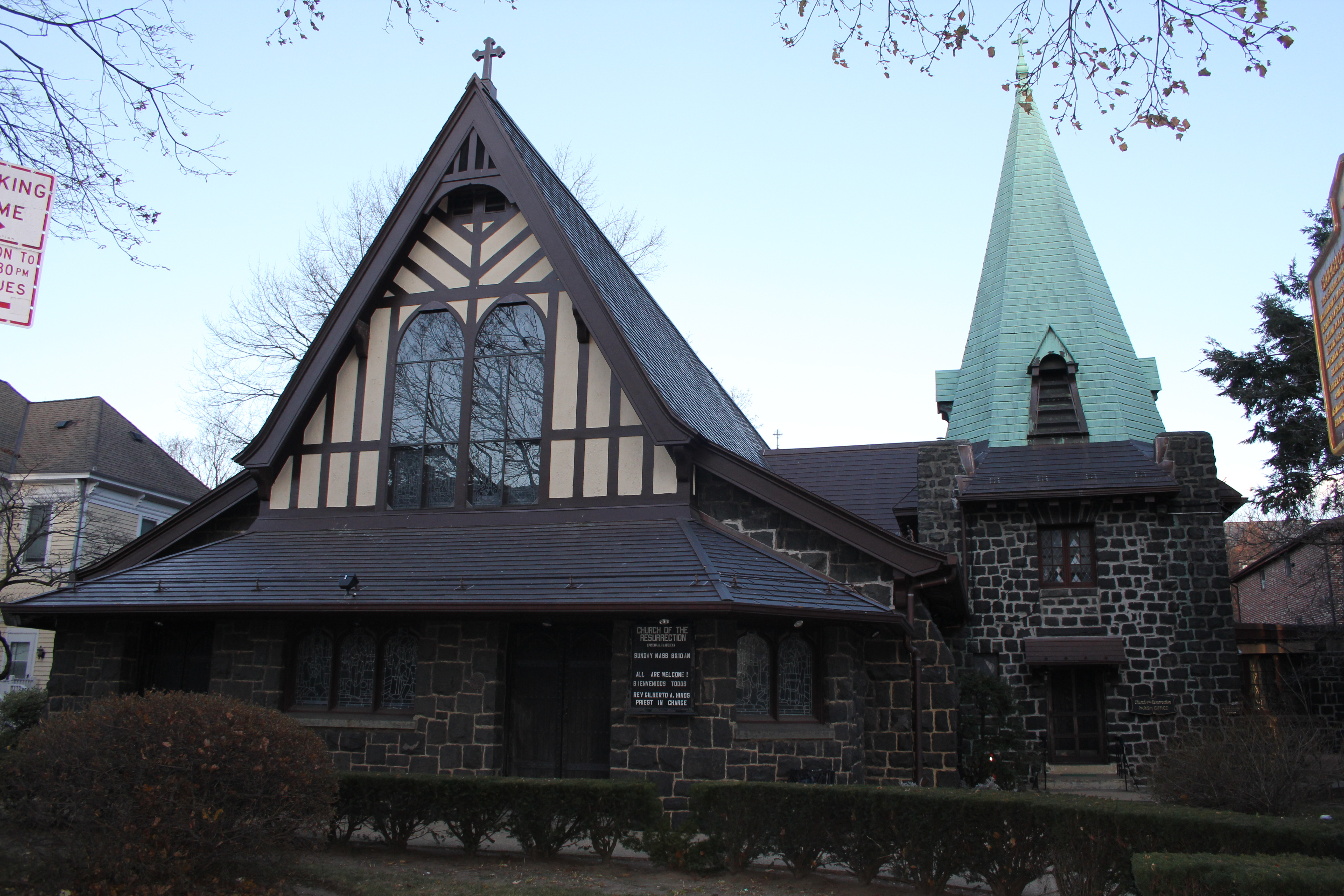 Church of the Resurrection, Richmond Hill, Queens, New York. Church building with tower. Building dates to 1874 but exterior elements seen here date to when it was remodeled in 1904 in the Late Gothic / Tudor Revival style.